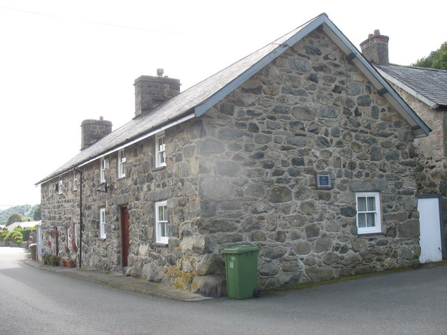 Part of the old core of Rhydymain The core of the village was used in 1949 as the location for the film 'Last Days of Dolwyn' in which the young Richard Burton had his first major film role. The film which also starred Dame Edith Evans and Emlyn Williams was also directed by Williams. A plaque on the side of the house nearest the camera commemorates the event.